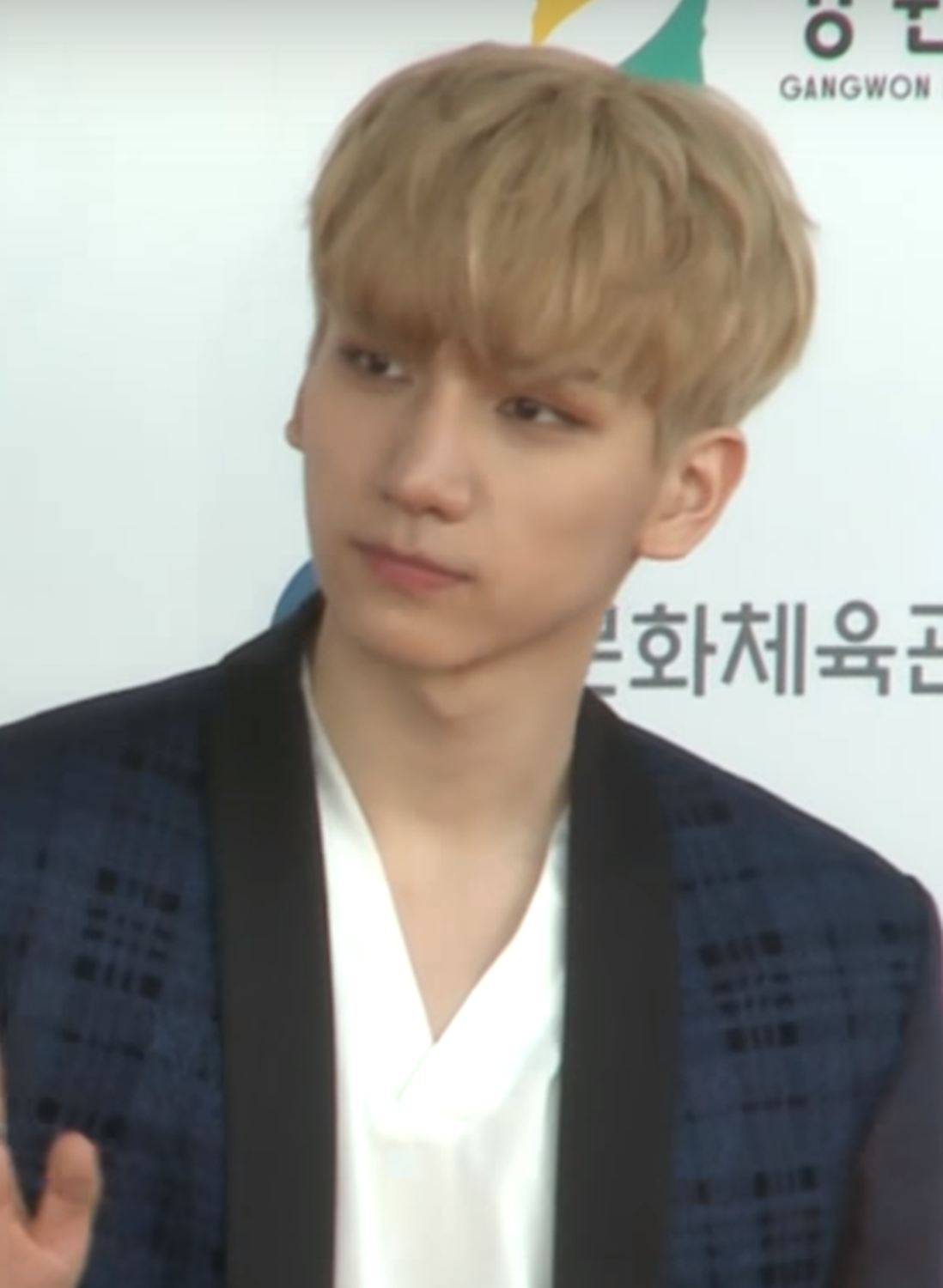 Hyuk at Dream Concert on June 3, 2017.